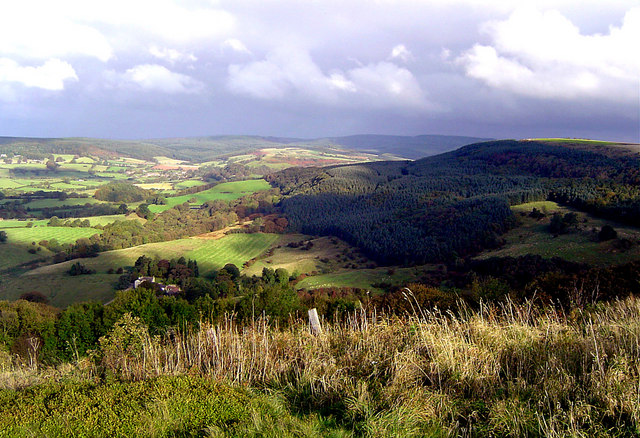 Hambleton Hills. A fine view of the Hambleton hills and South Woods to the right. More about the area can be found here.